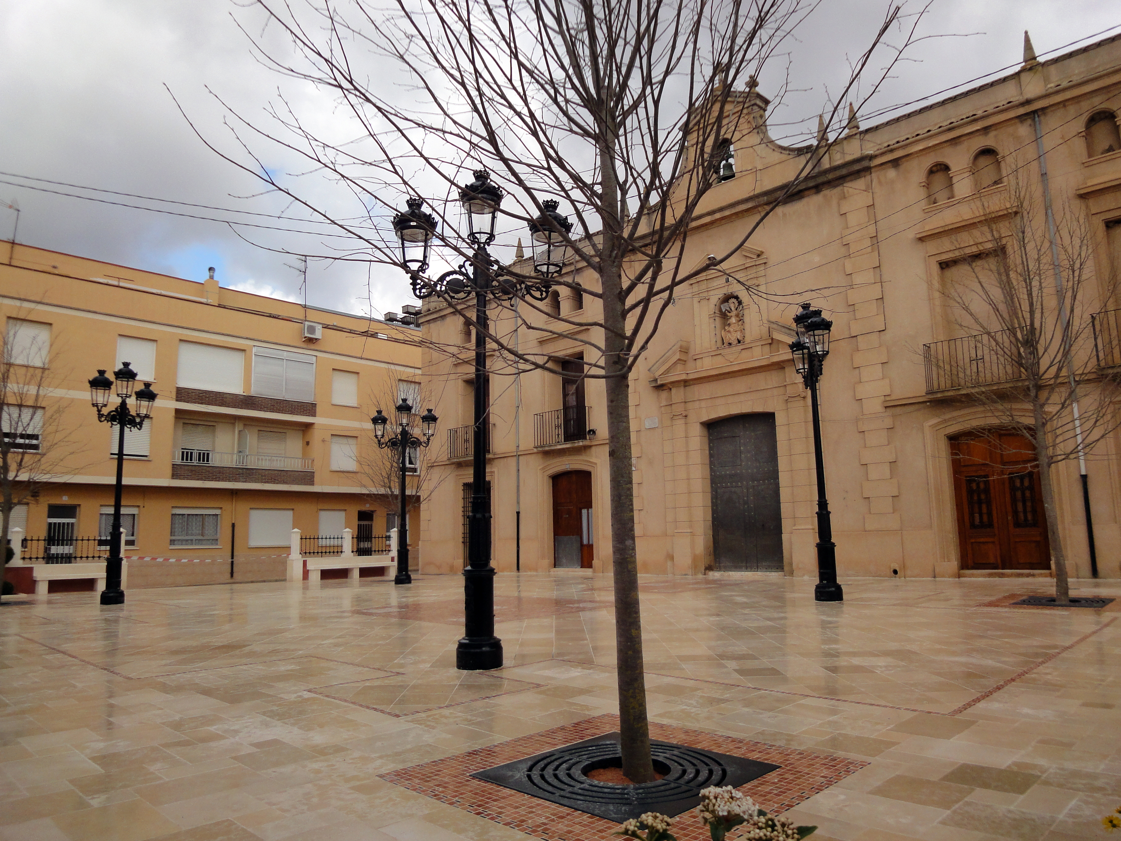 New look of Glorieta of Beneixama, after the works carried out for adequacy.